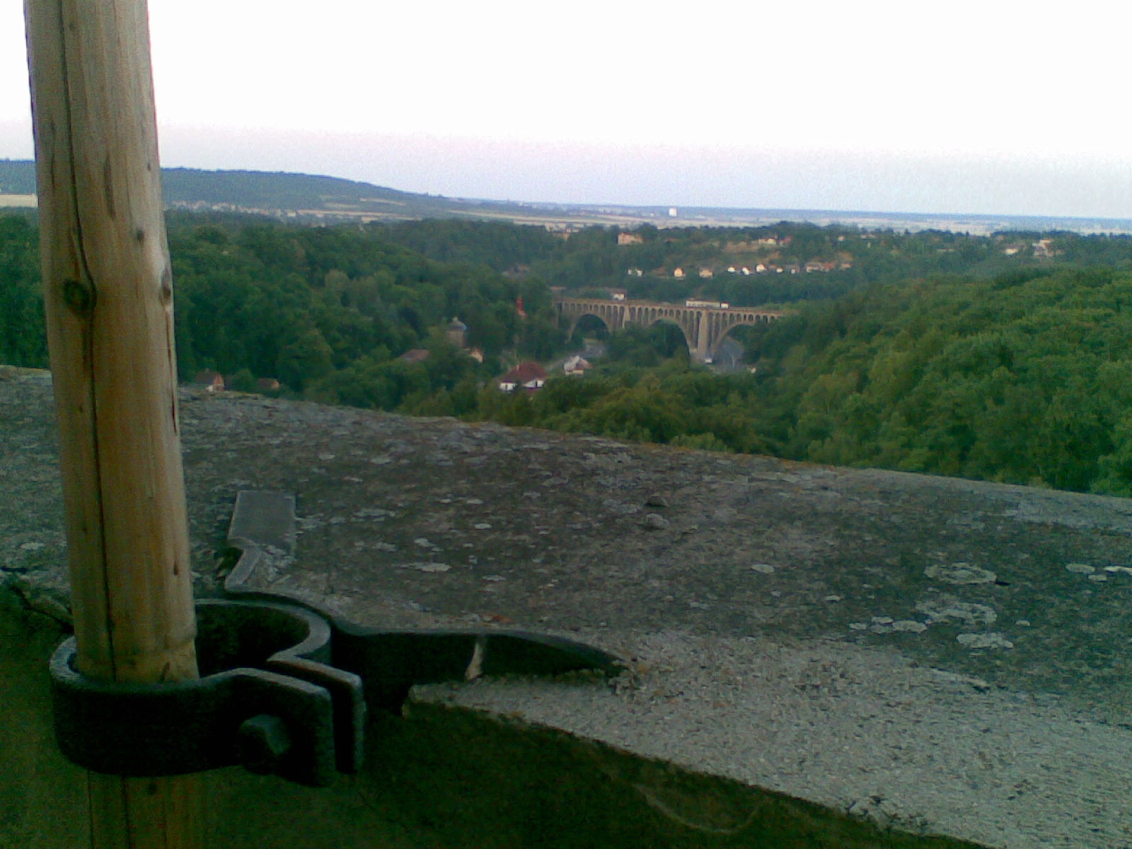 PanoramaWithOldRailwayBridge